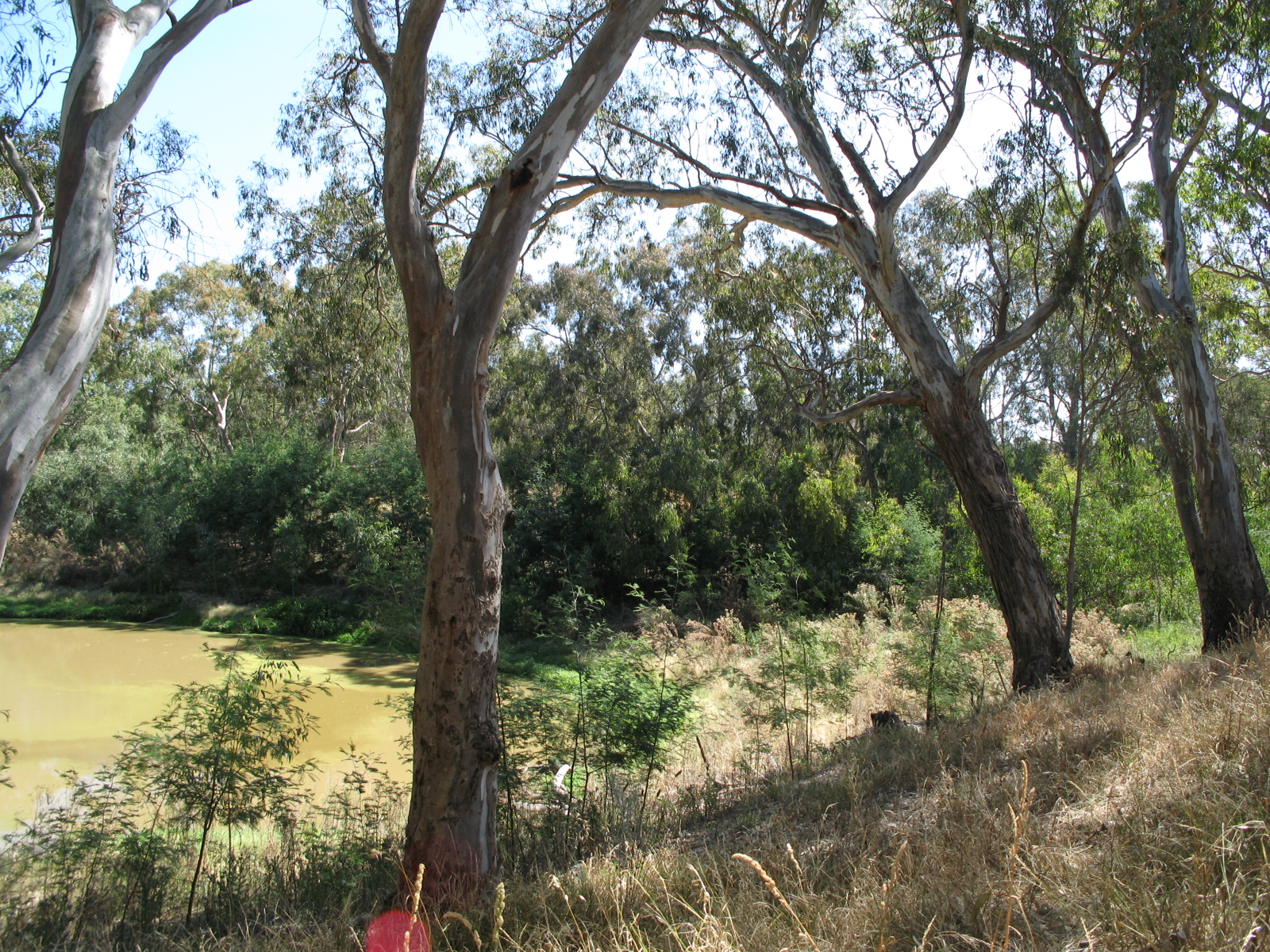 Bolin Bolin Billabong, Yarra River in Bulleen, a suburb of Melbourne, Victoria, Australia. Photo taken by Nick carson in January 2009.